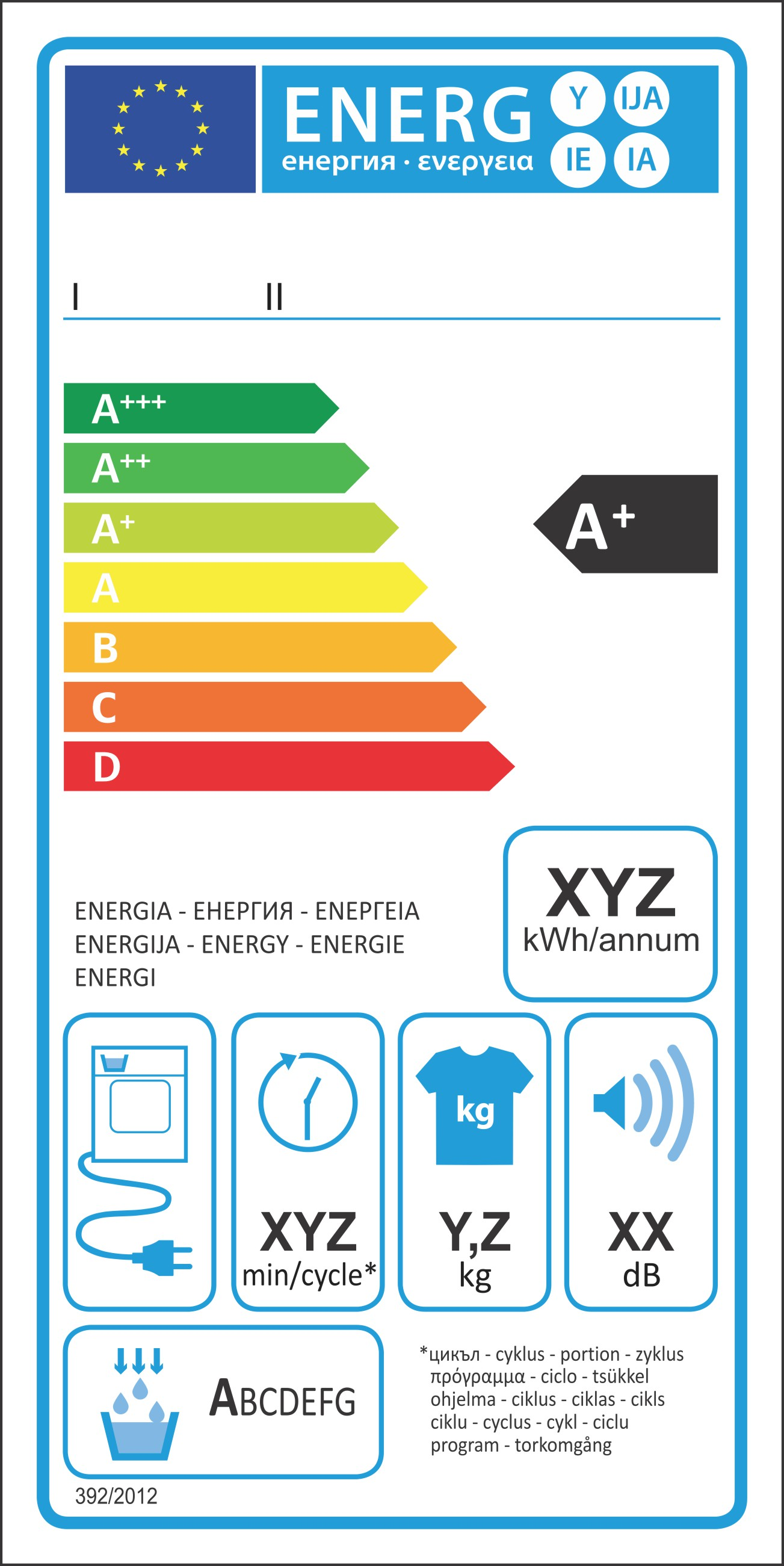 Tumbledryer condensation energy rating label